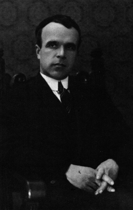 Photograph of the Finnish composer Carl Hirn (1886–1949).